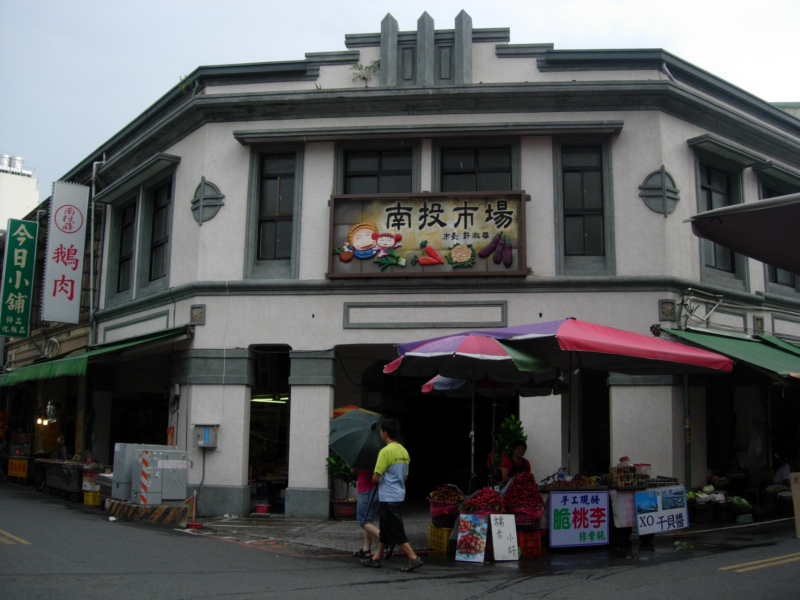 NantouMarket